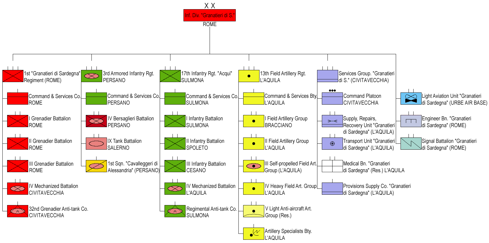 Structure of the Italian Army "Granatieri di Sardegna" Division in 1974